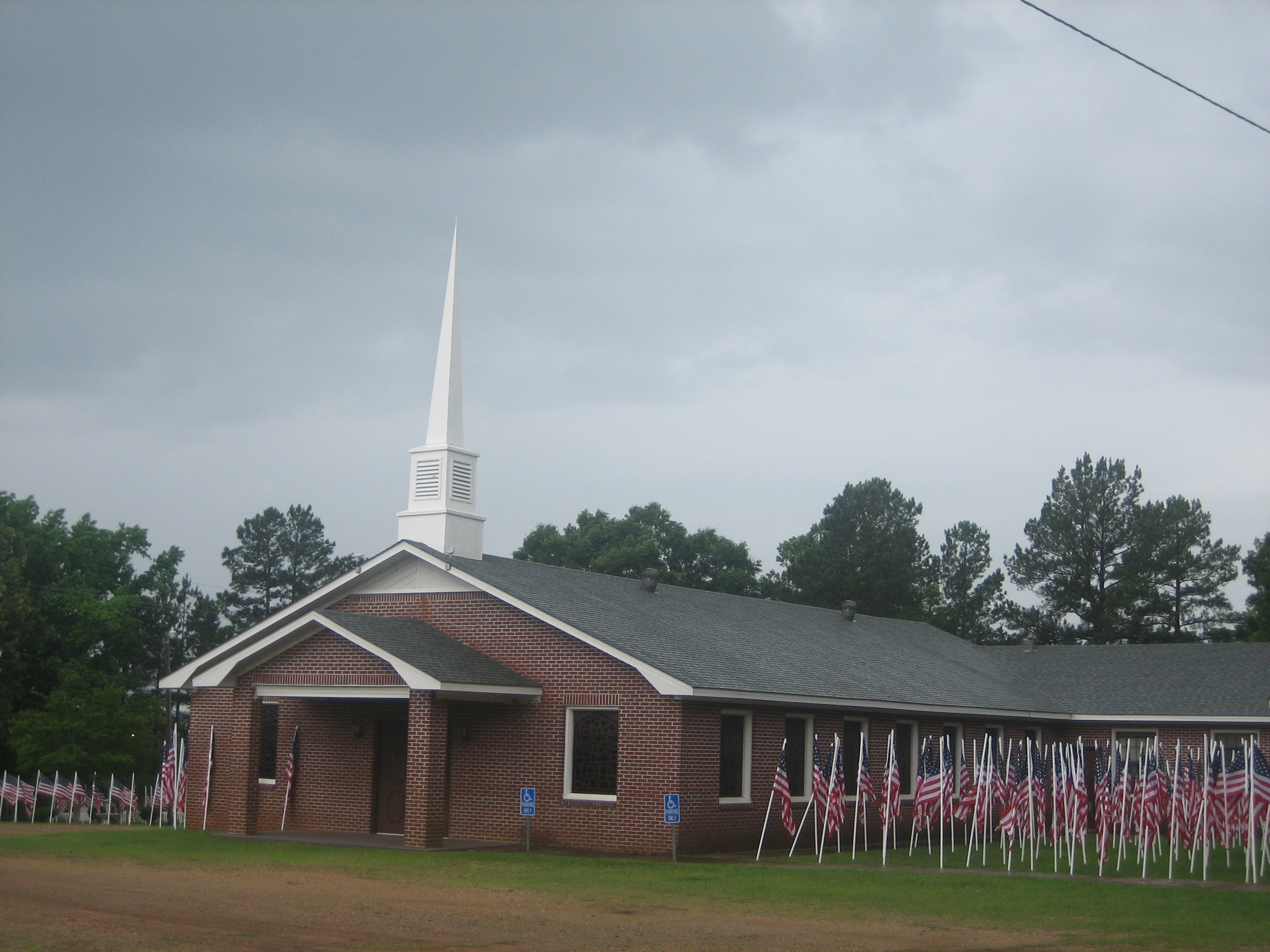 I took photo on May 22, 2009.Billy Hathorn (talk) 20:23, 29 May 2009 (UTC)